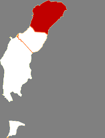 Location of the Urho district in the Karamay City, Xinjiang, China